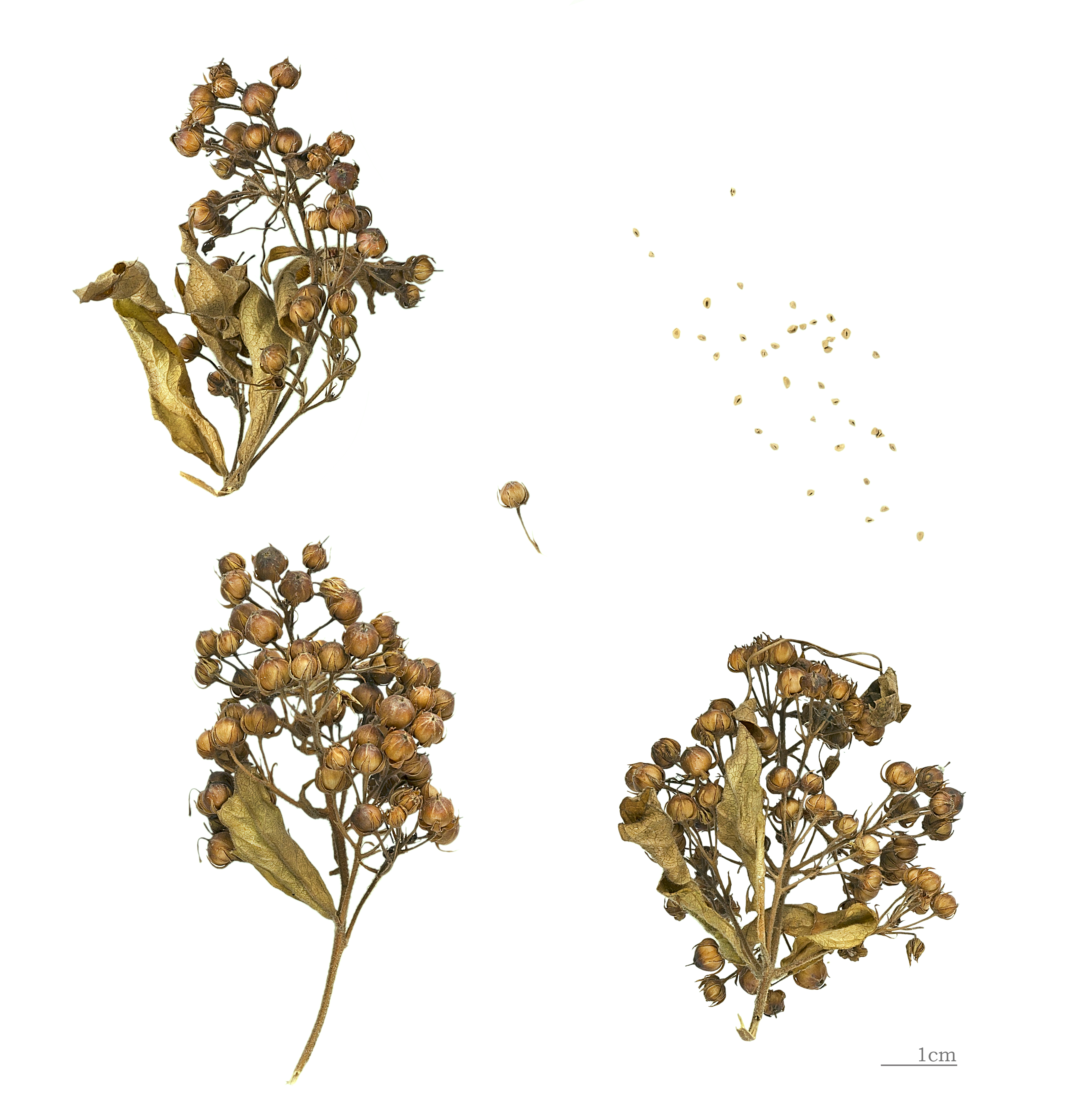 Garden Loosestrife, Capsules and seeds. Bank of the Garonne, Toulouse, France.